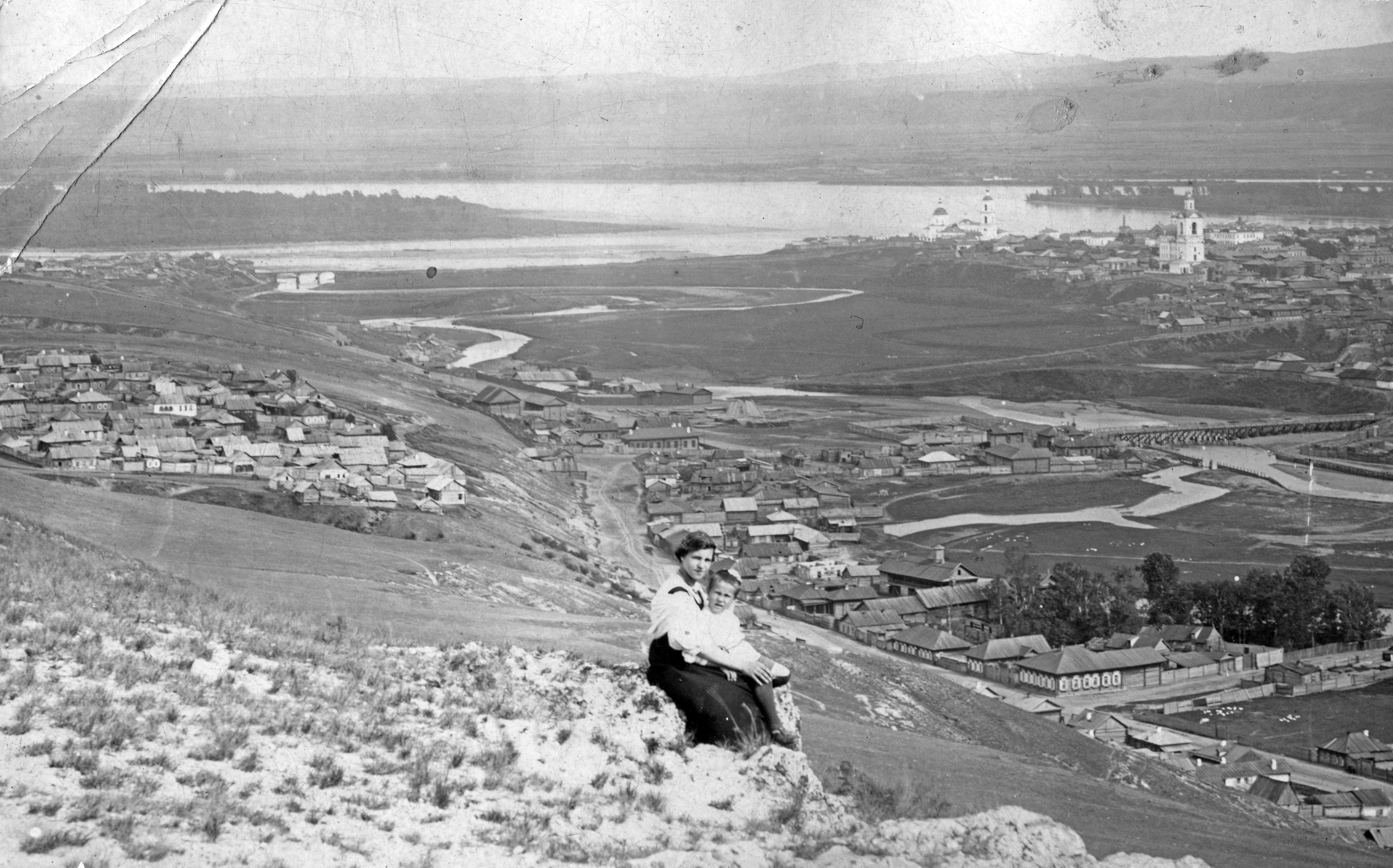 Panorama of the eastern part of Krasnoyarsk, 1910.